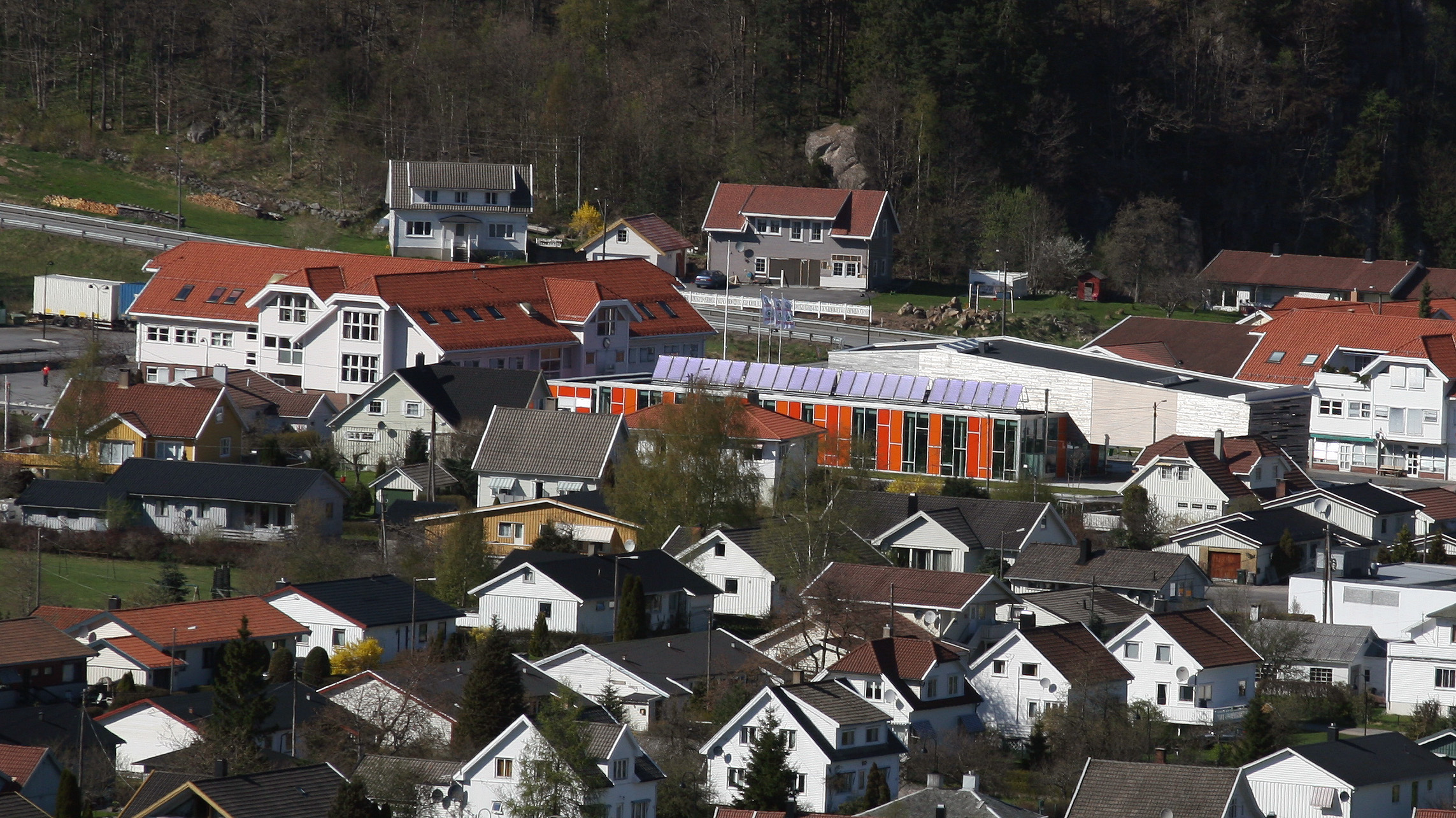 Kulturtorvet at Vigeland, Lindesnes.